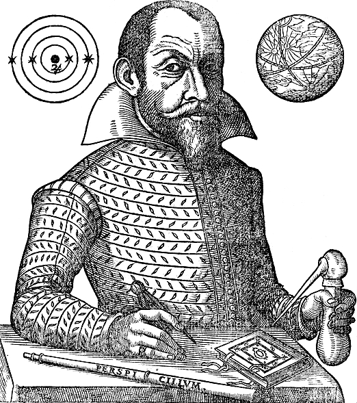 Engraved image of Simon Marius (1573-1624), from his book Mundus Iovialis, 1614. Cropped version. *GC6 M4552 614m, Houghton Library, Harvard University